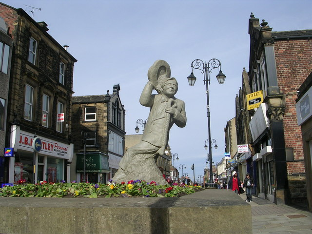 Ernie Wise - Queen Street This statue has been recently erected in memory of the late Ernie Wise, part of the comedy duo Morecambe & Wise.